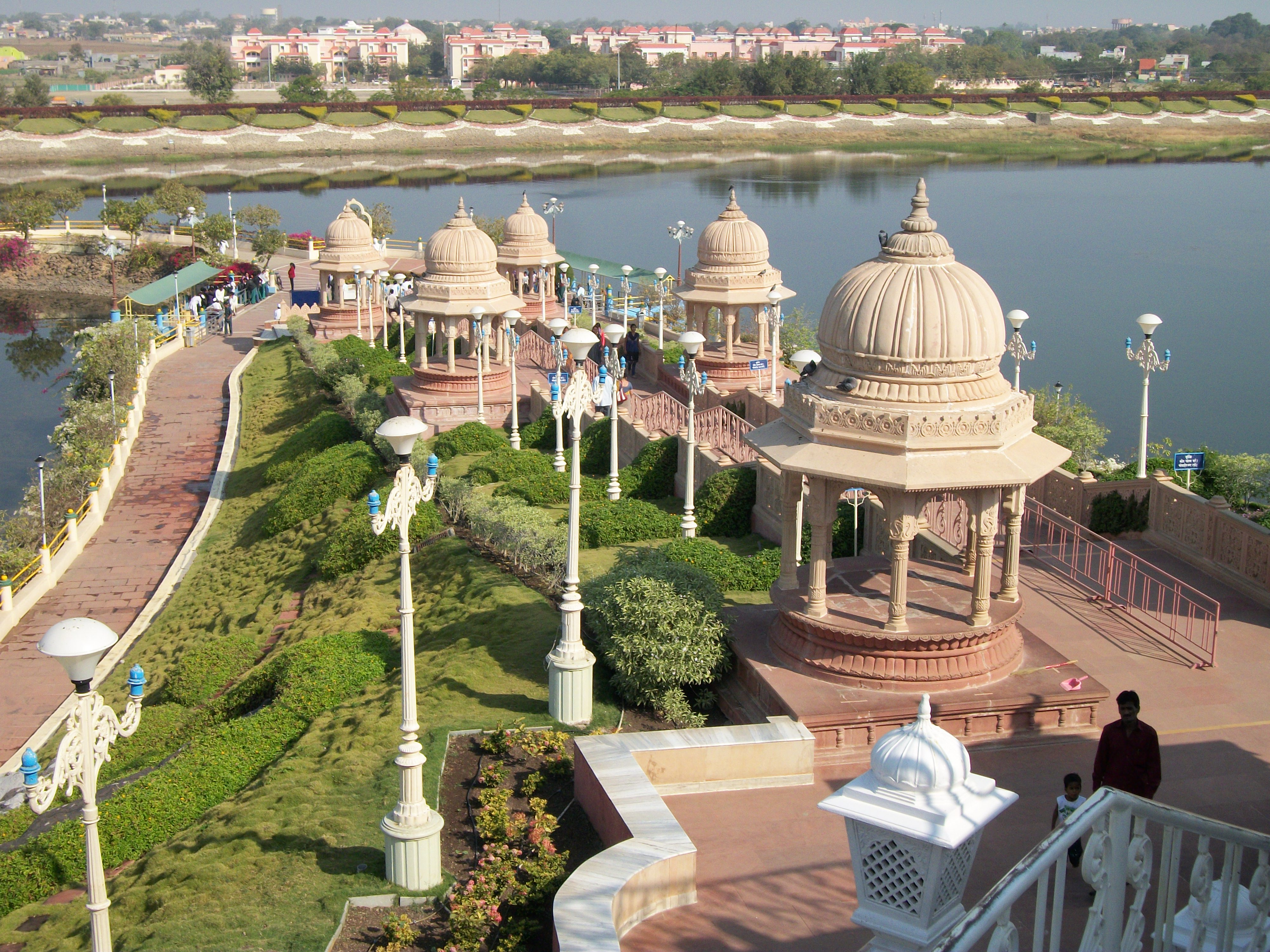 The view from the swami vivekanand temple for mediation.